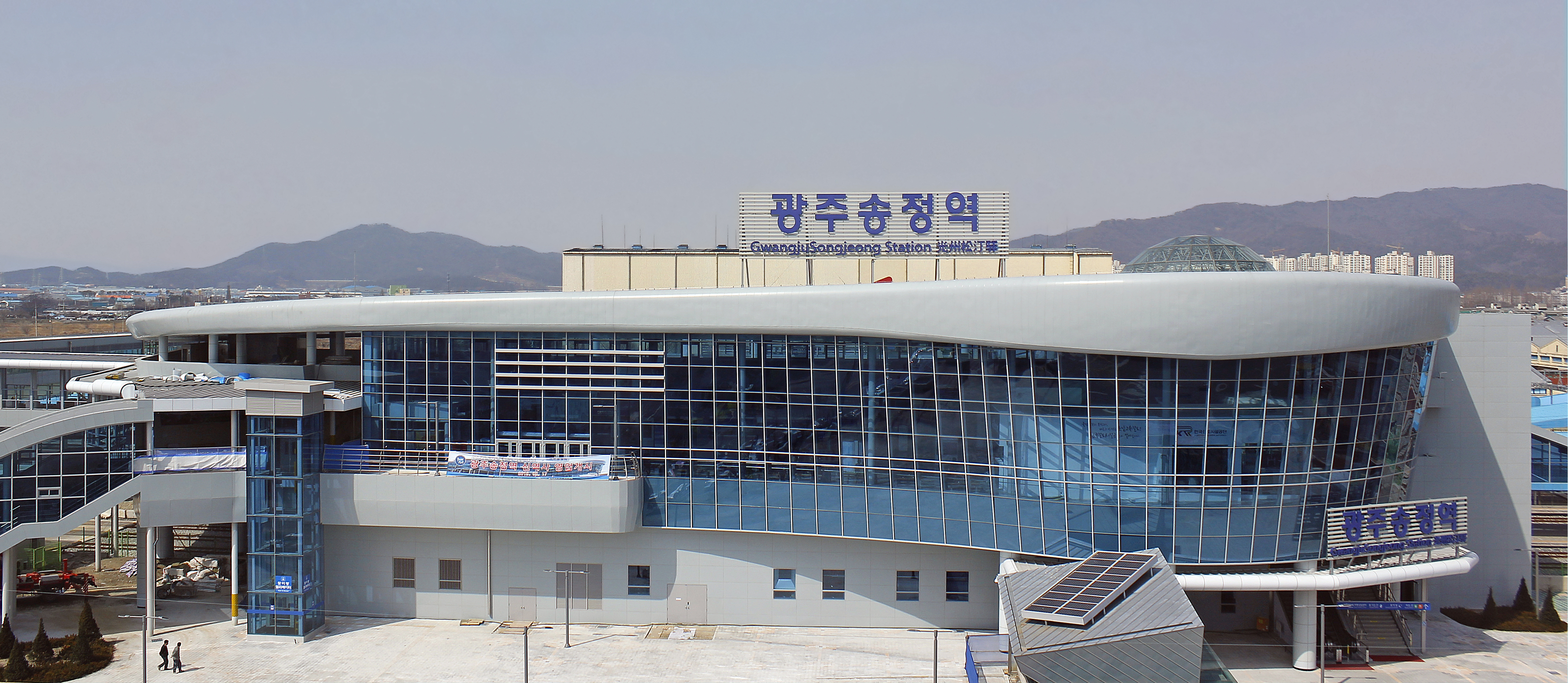 GwangjuSongjeong Station(2015)